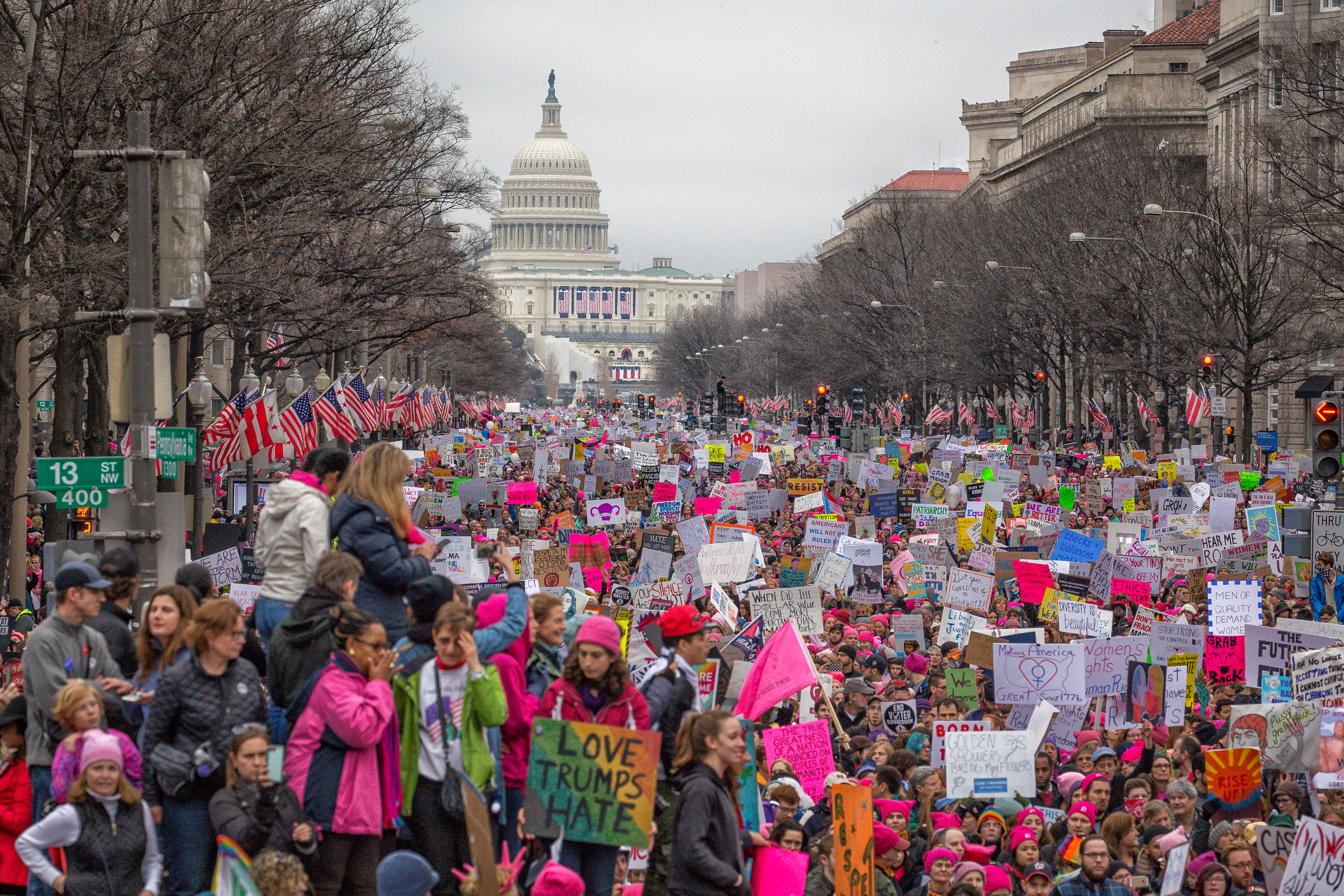 Another perspective